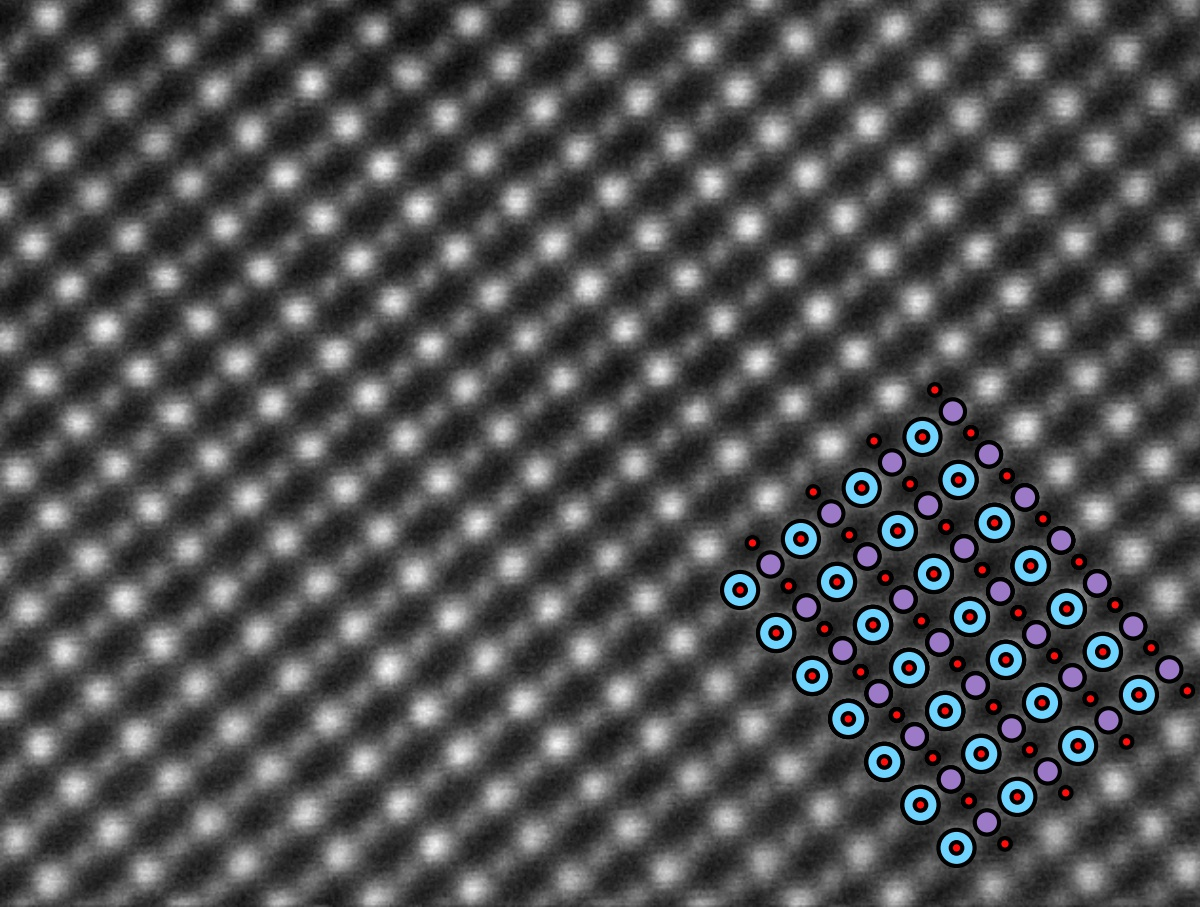 Atomic resolution scanning transmission electron microscopy imaging of the perovskite oxide La0.7Sr0.3MnO3, using an annular dark field detector. The electron beam is parallel to the [110] direction. Overlay: lanthanum/strontium (blue), manganese (purple), oxygen (red).